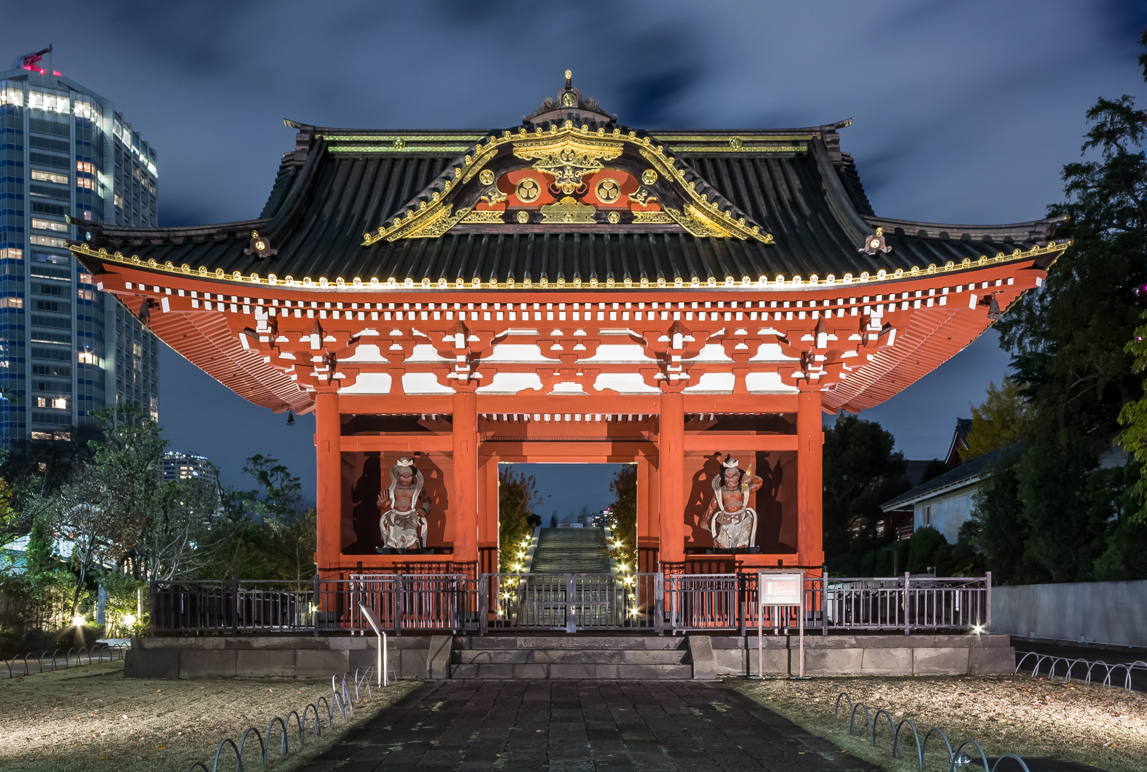 Photo of the Niōmon of Taitokuin, the mausoleum of Tokugawa Hidetada at Zōjōji, a temple in Shiba, Tokyo.